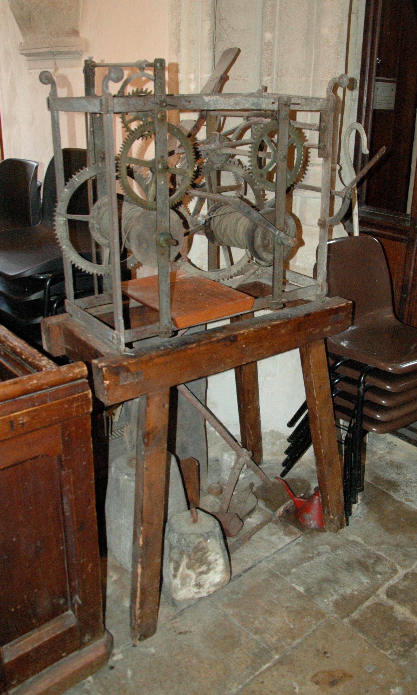 Church of England parish church of St Giles, Horspath, Oxfordshire: disused 17th-century turret clock